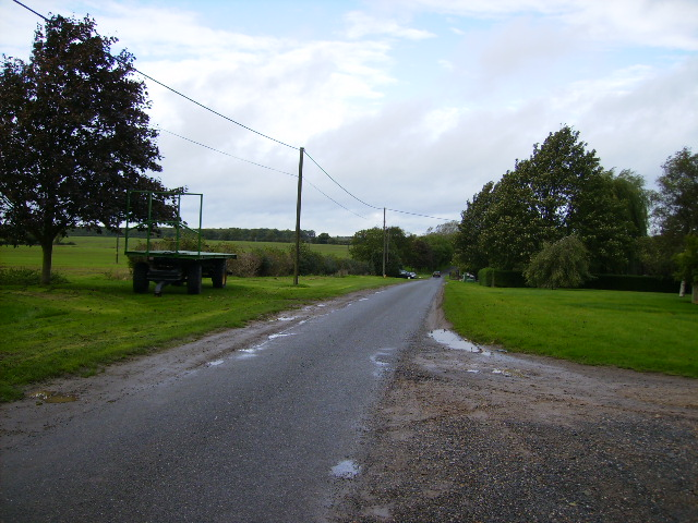 Lane running through Puxley